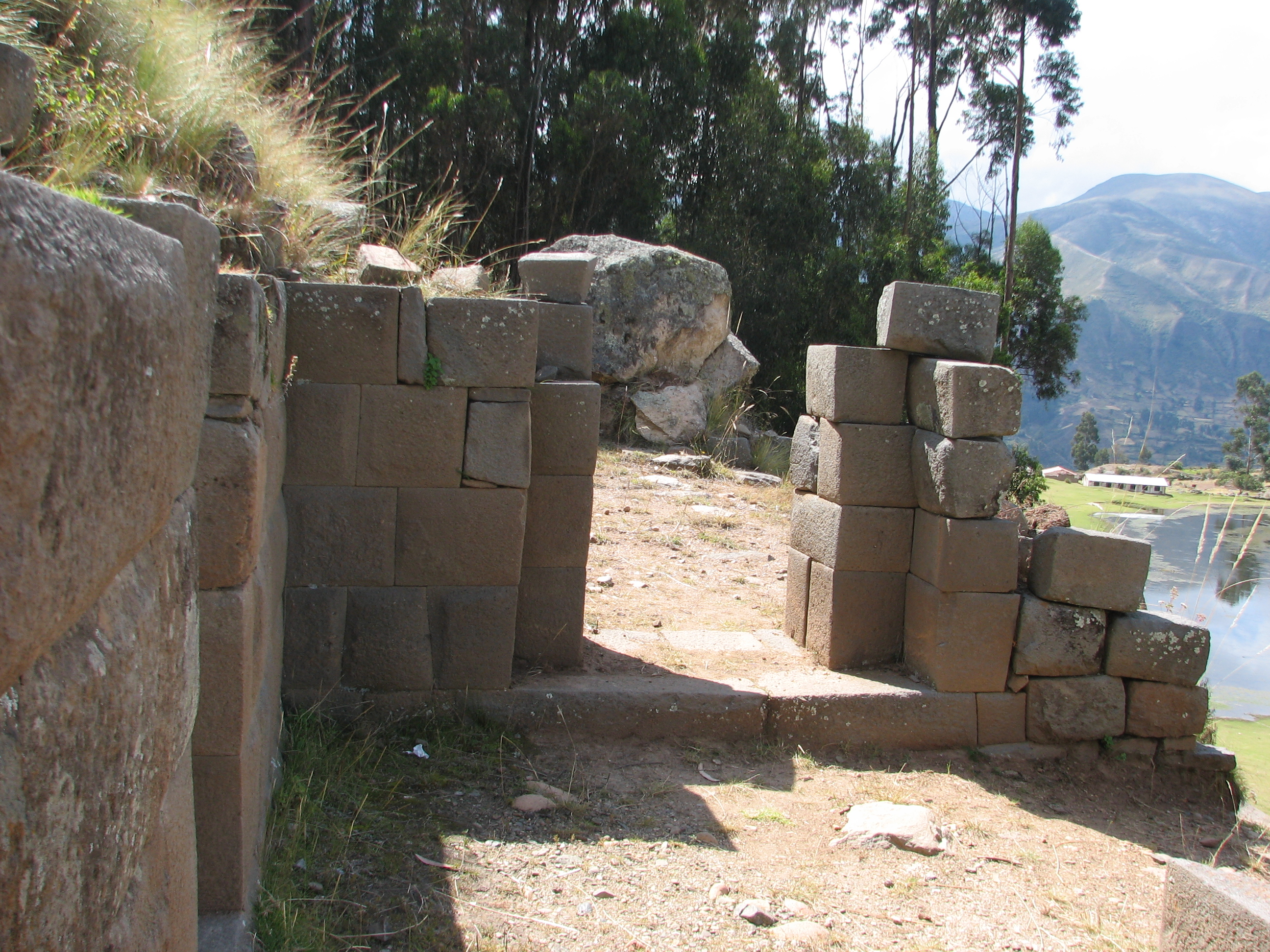 Pumacocha Archaeological site (doorway)